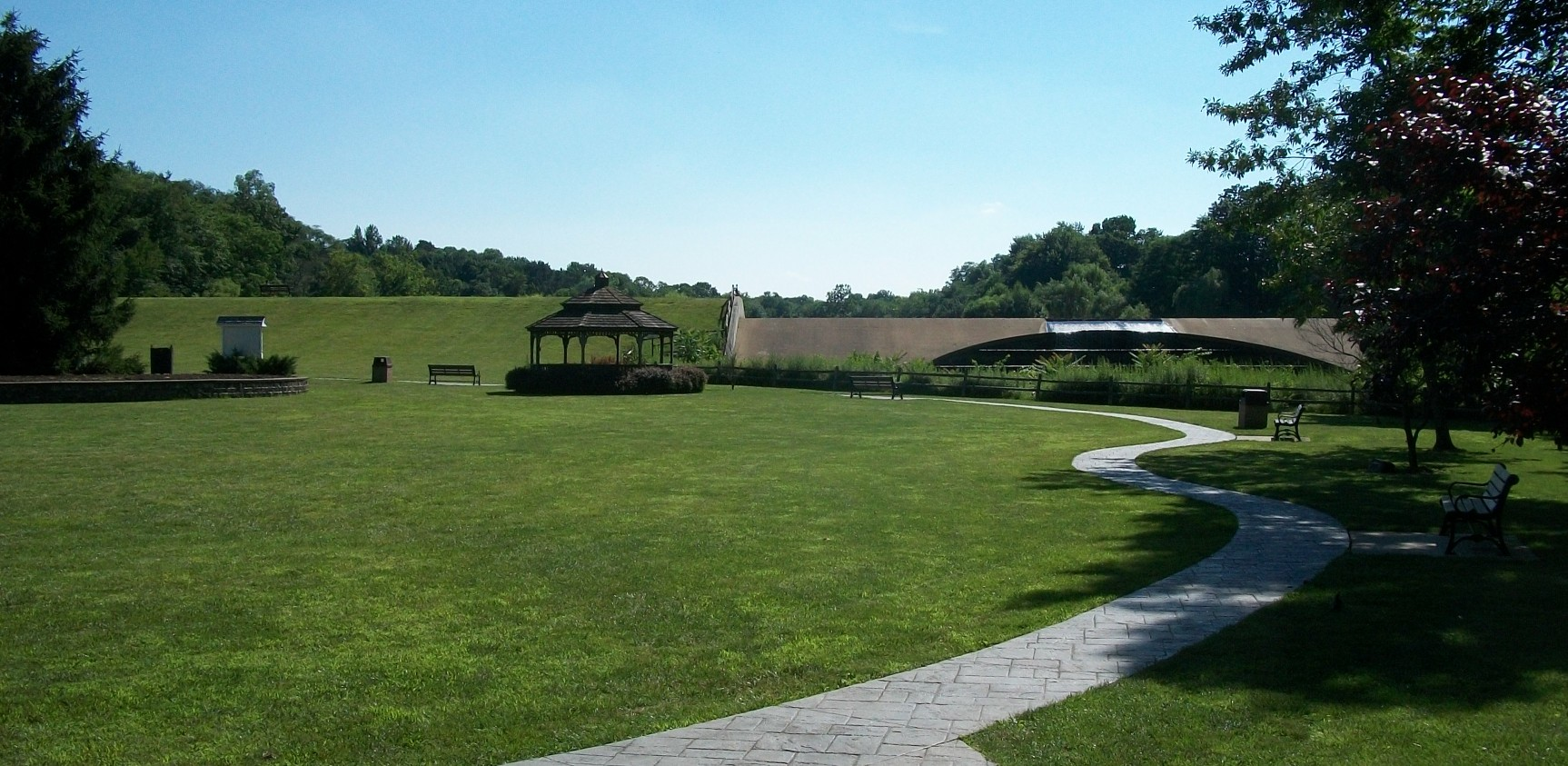 A grassy park area in Watchung, New Jersey, below a dam.